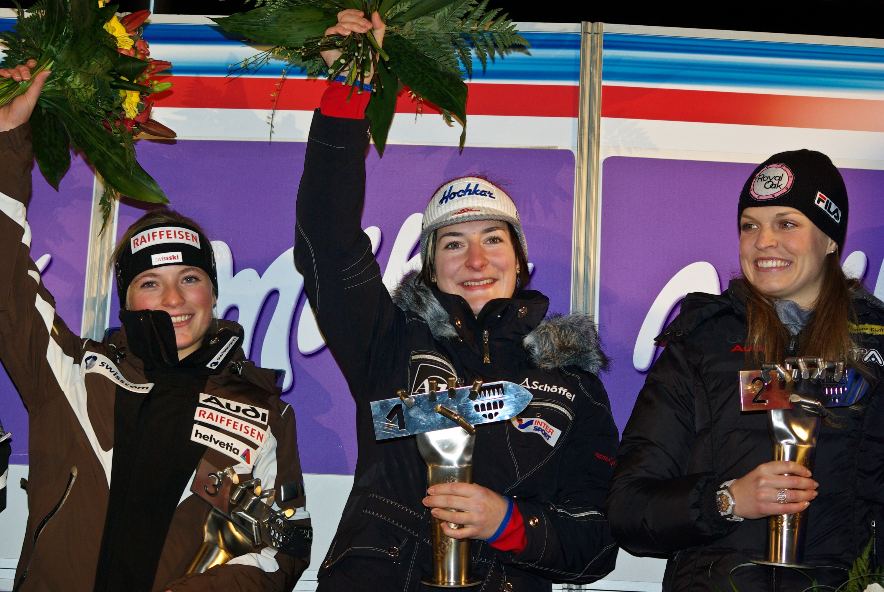 2009 Alpine Skiing World Cup Ladies: The winners of the giant slalom in Semmering on 28 December 2008: 1st place: Kathrin Zettel (middle), 2nd place: Manuela Mölgg (right), 3rd place: Lara Gut (left)